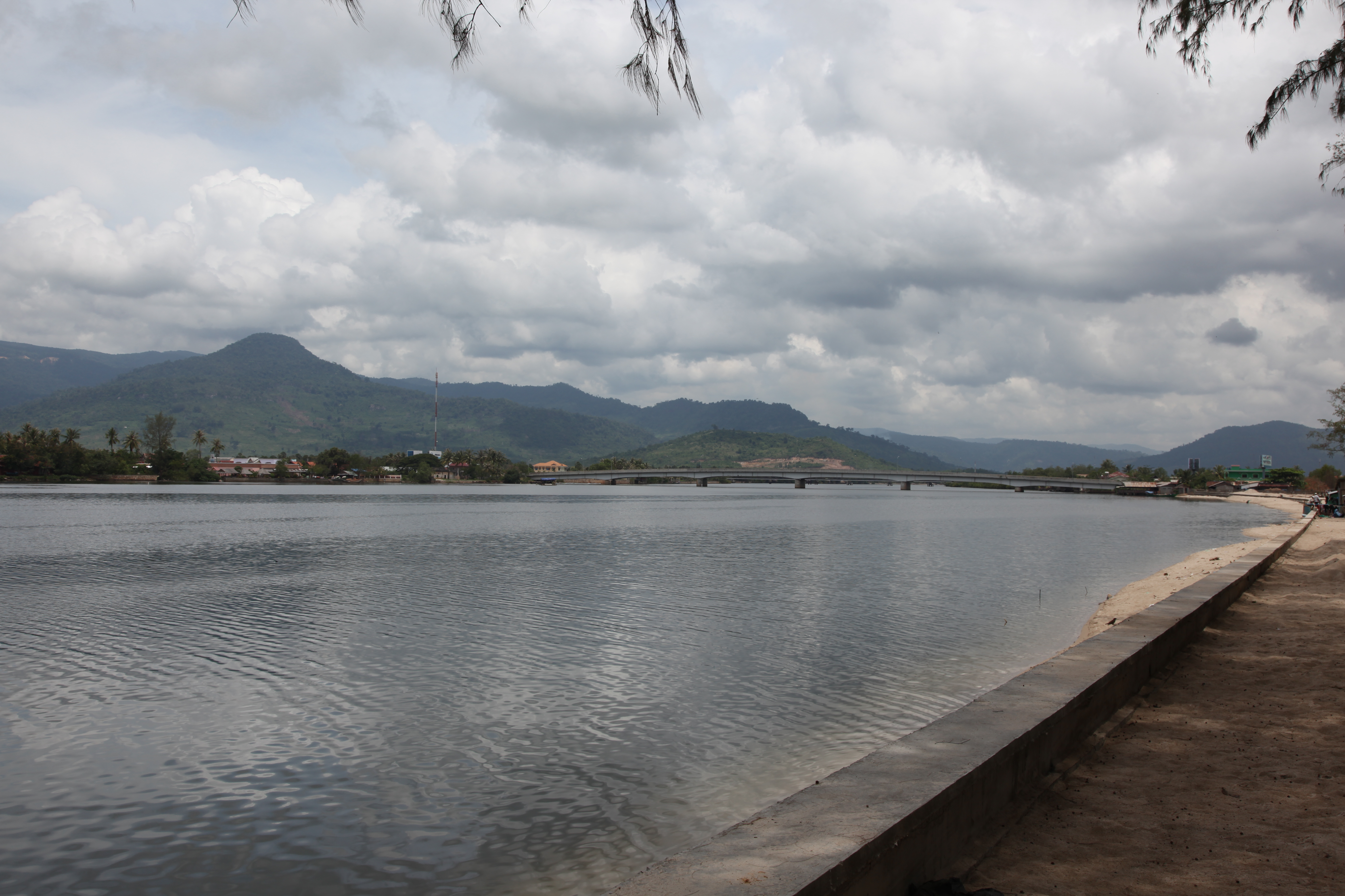 River Teuk Chhou near the old bridge at the town Kampot, Cambodia. The new bridge in the background.